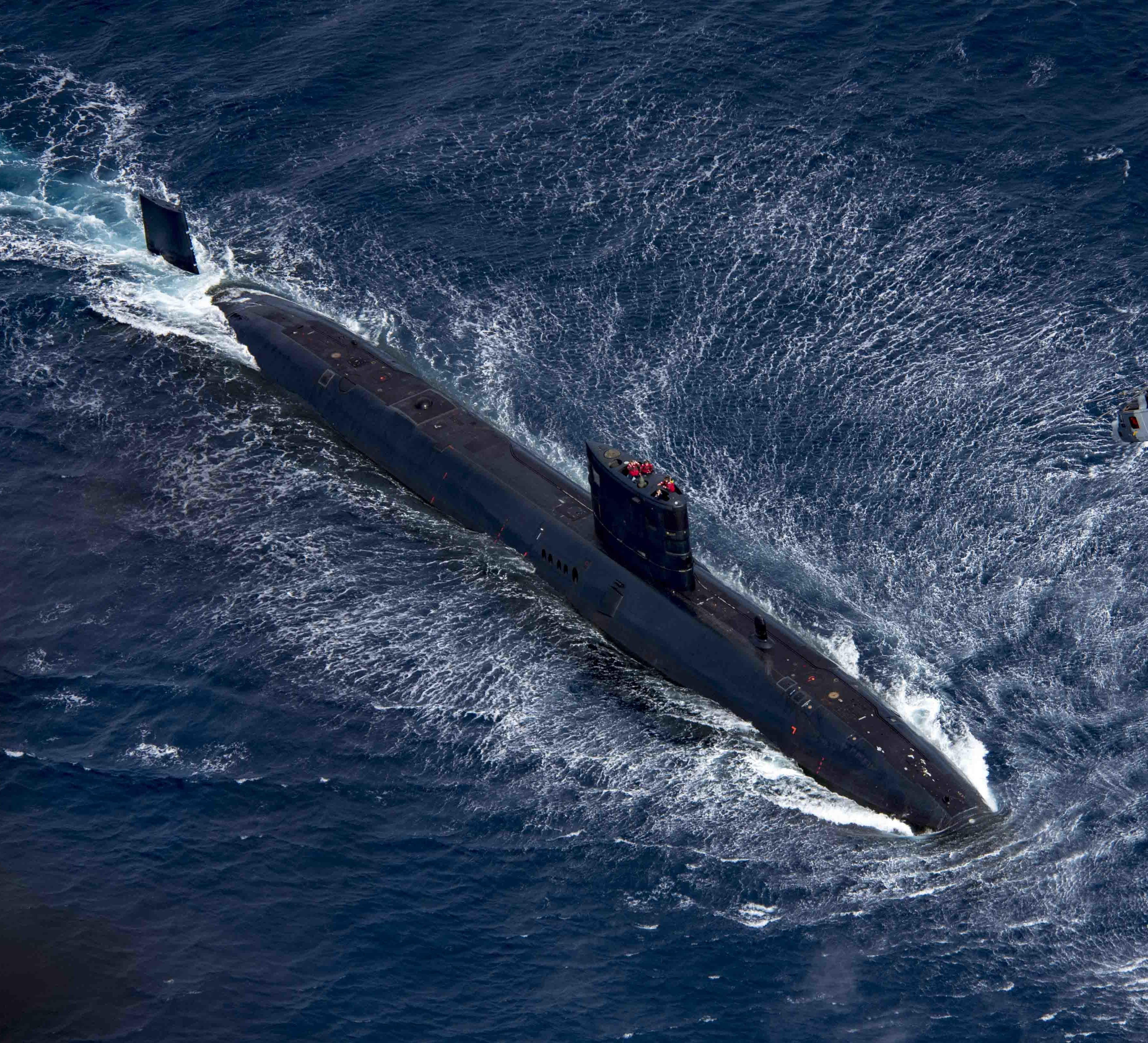 Royal Navy Trafalgar-class submarine HMS Trenchant and Royal Navy Wildcat HMA2, attached to Type 23 frigate HMS Iron Duke (F234), participate in a passenger exchange during exercise Saxon Warrior 2017, Aug. 5. Saxon Warrior is a United States and United Kingdom co-hosted carrier strike group exercise that demonstrates interoperability and capability to respond to crises and deter potential threats.